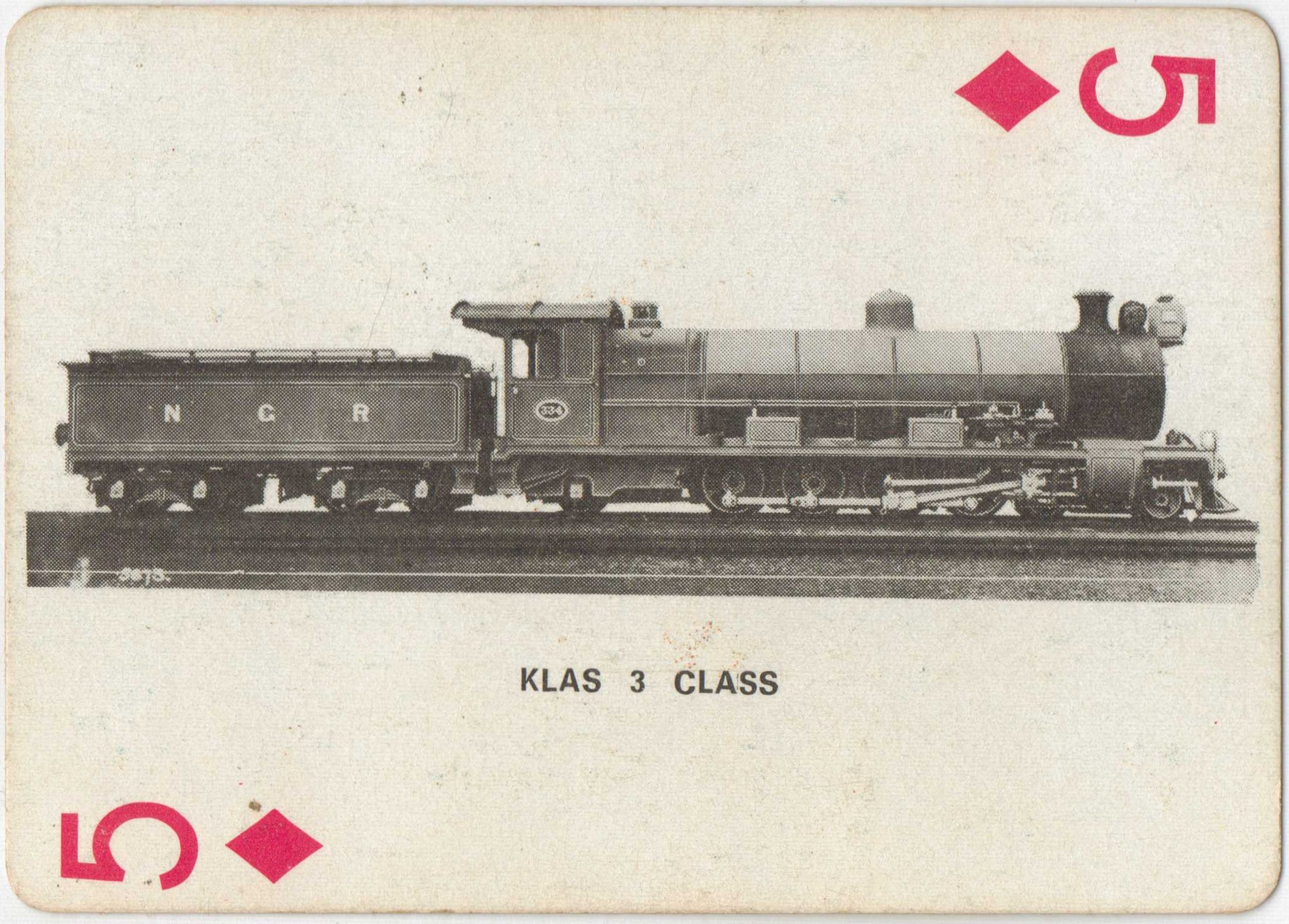 SAR Museum Playing Cards - Diamond Five Class 3 1450 (4-8-2) Ex NGR 334